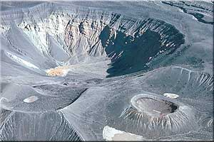 Ubehebe field form the air